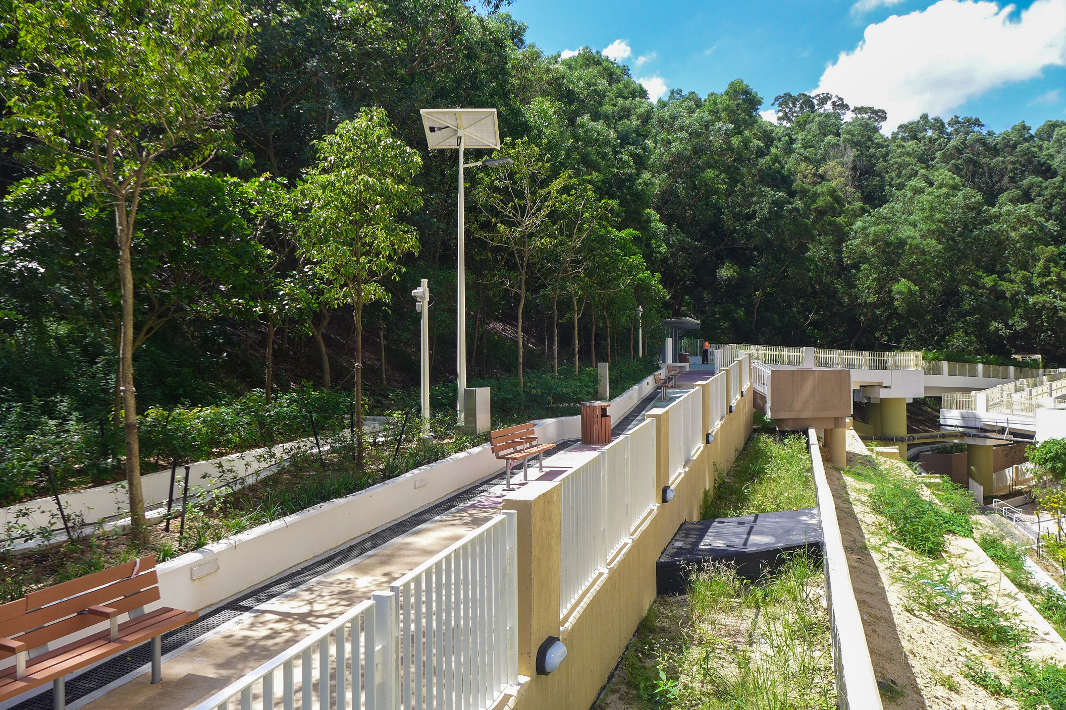 Long Shin Estate Hillside landscape area